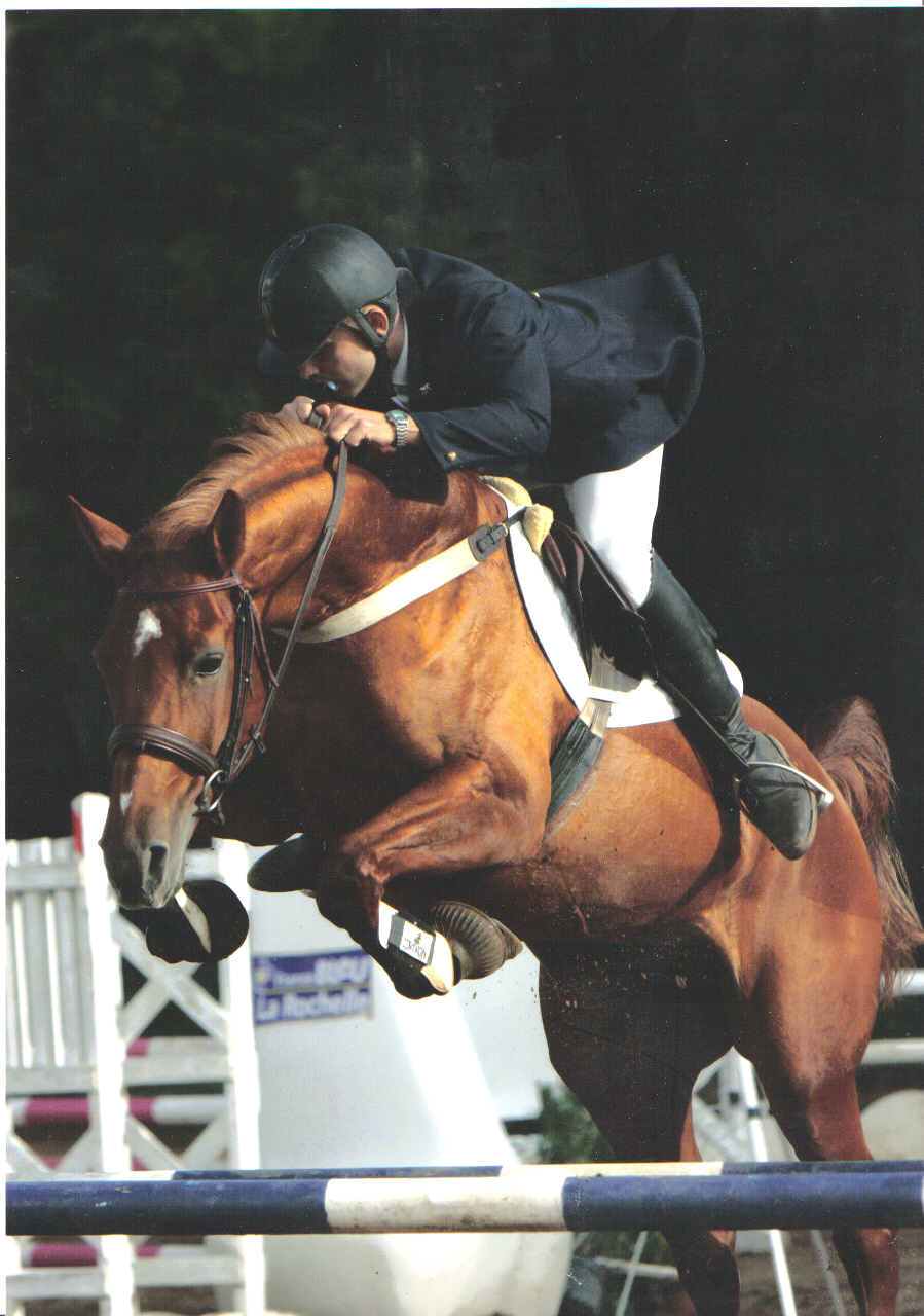 A show-jumper in mid-air. A horse jumping over an obstacle.